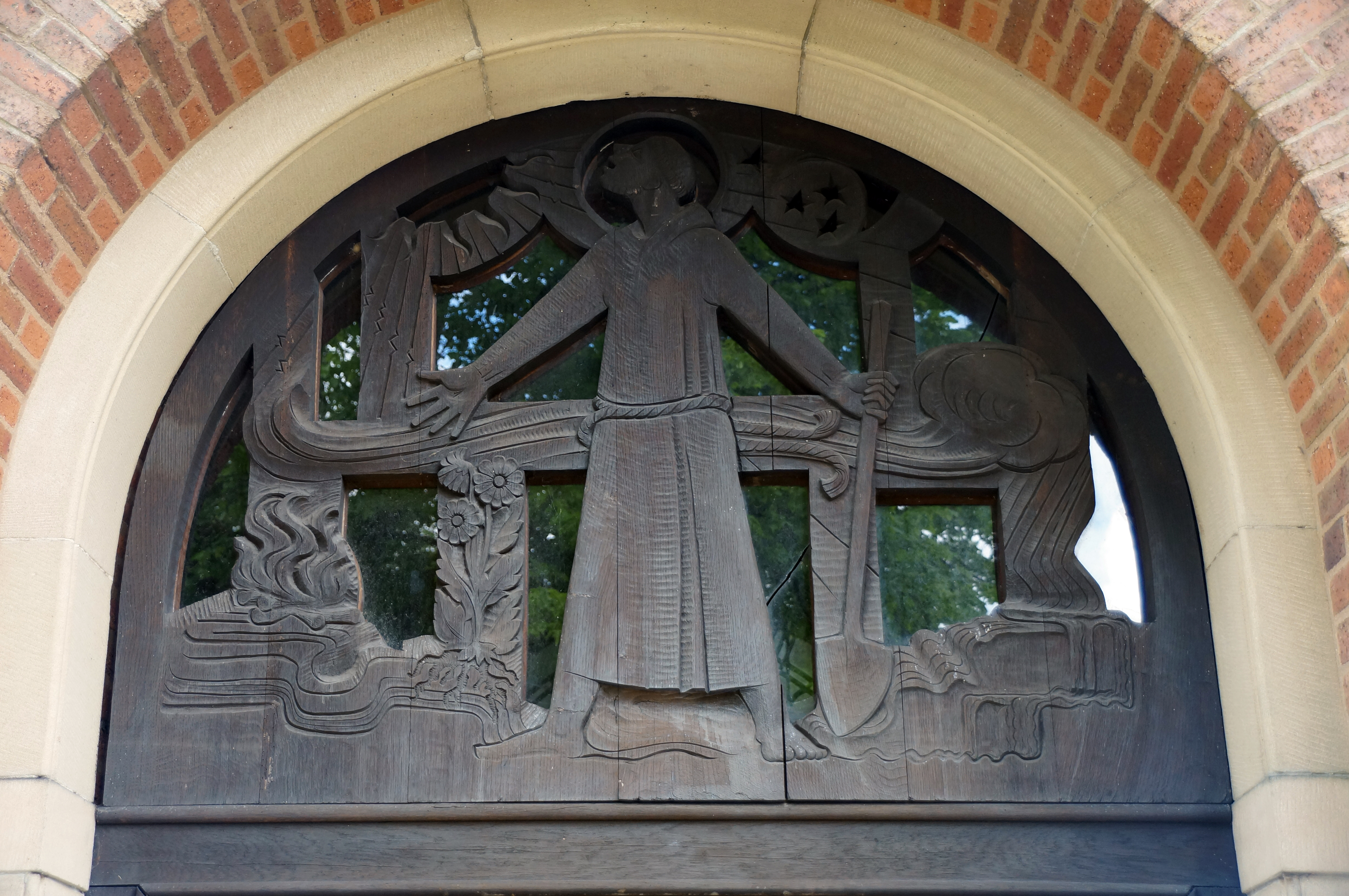 Tympanum, 1933, by local sculptor John Pool, a pupil of William Bloye over the south door of Church of St Francis of Assisi in Bournville, Birmingham, England.